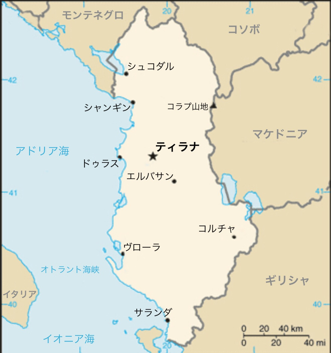 from CIA World Factbook